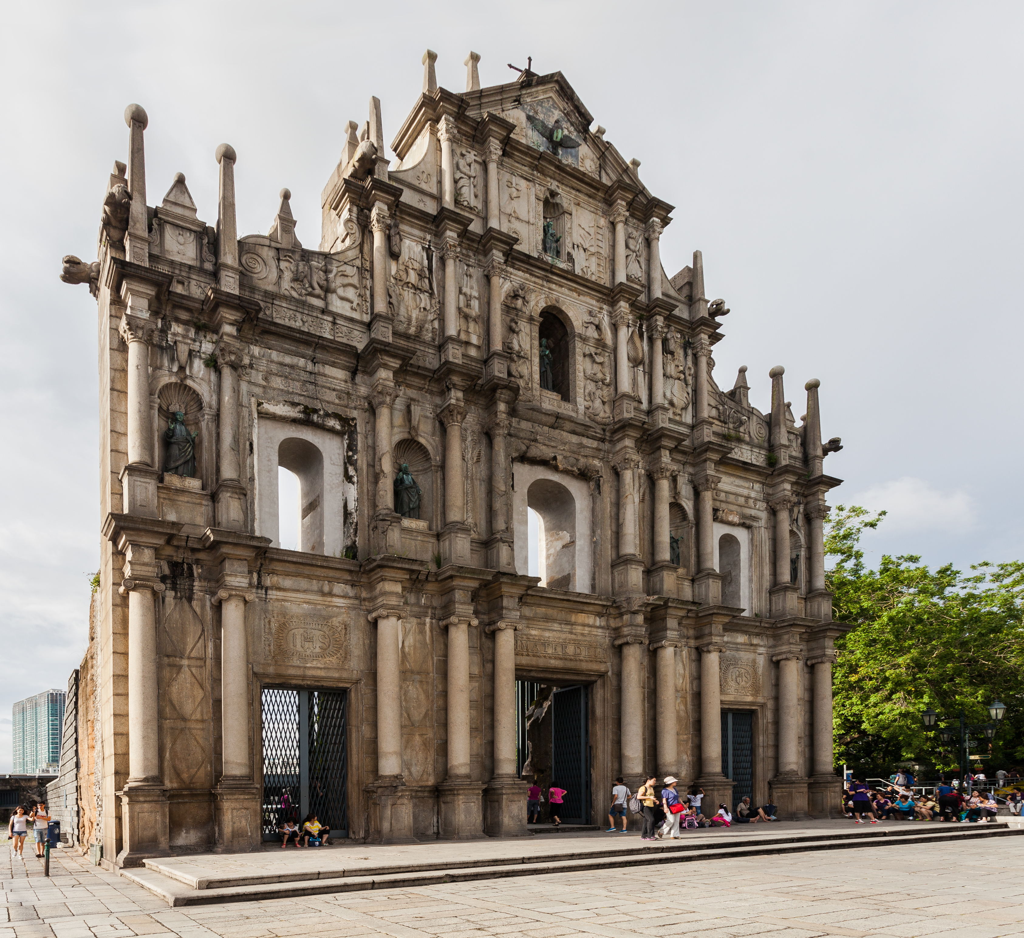 Remains of the Cathedral of St. Paul, Macau